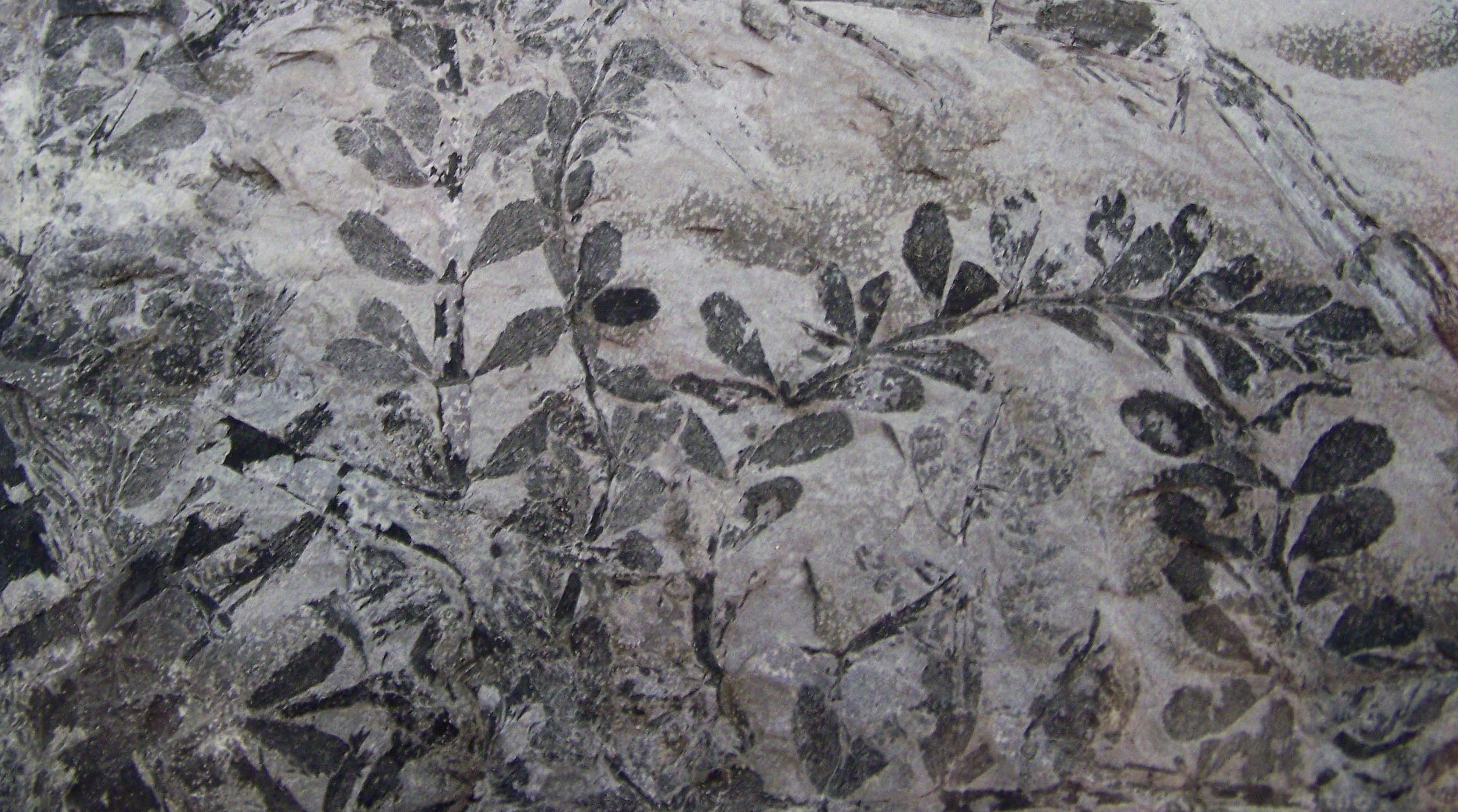 Cropped image of taxon in file name